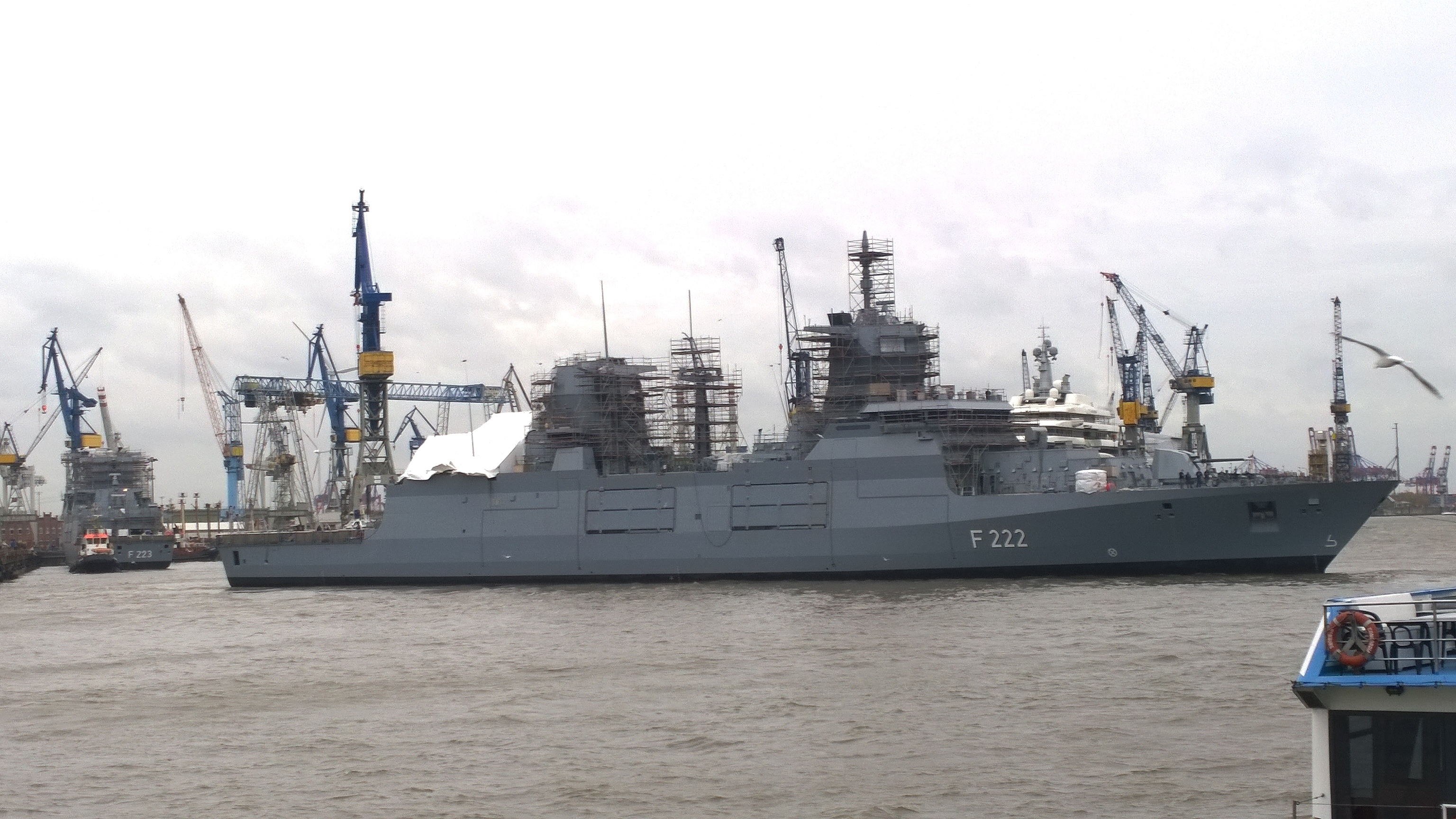 The German frigate Baden-Württemberg (F222) is turned over the stern to the right in front of the dock. In the dock, the stern of Nordrhein-Westfalen (F223) is visible on the left.